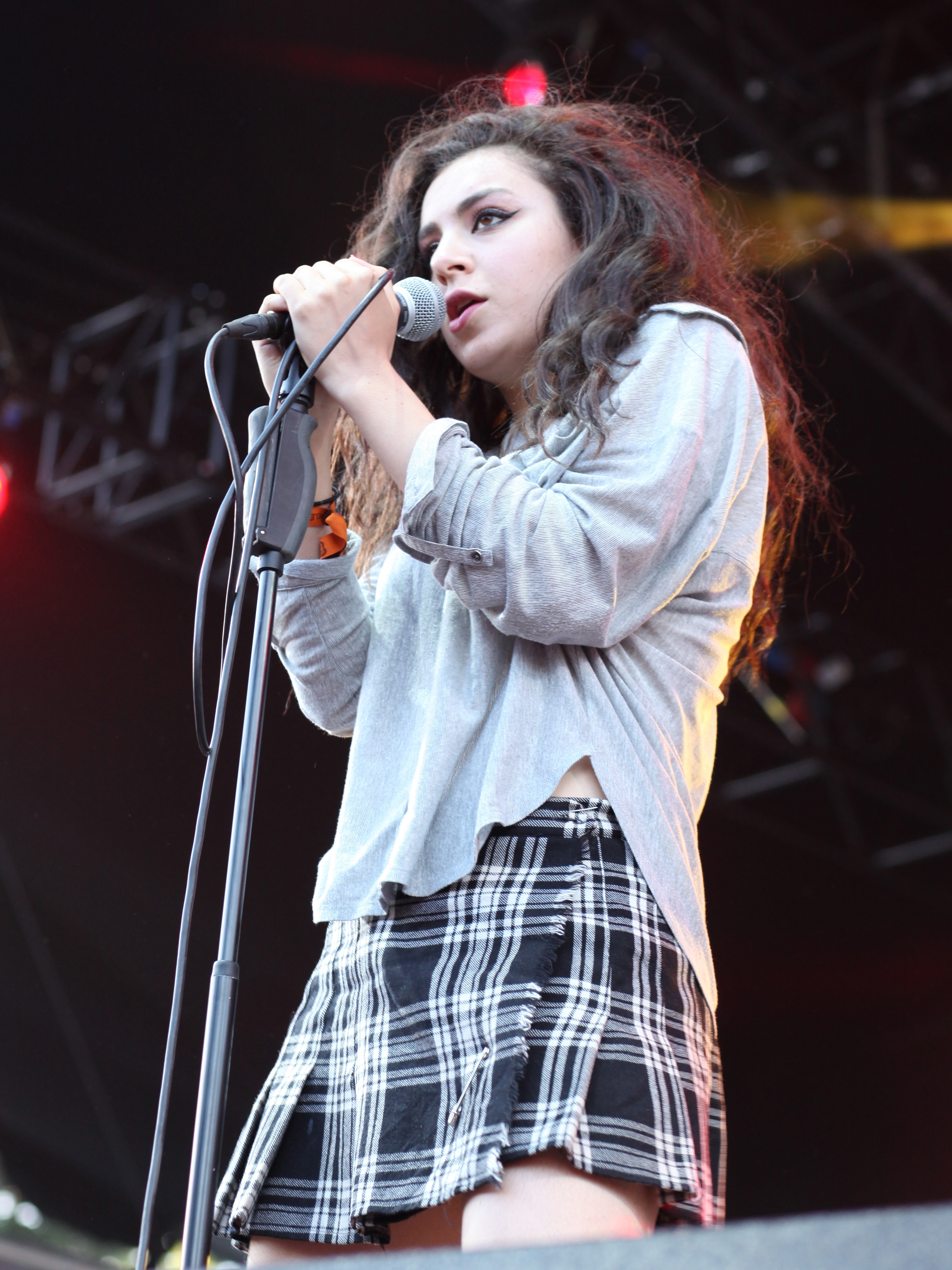 Charli XCX